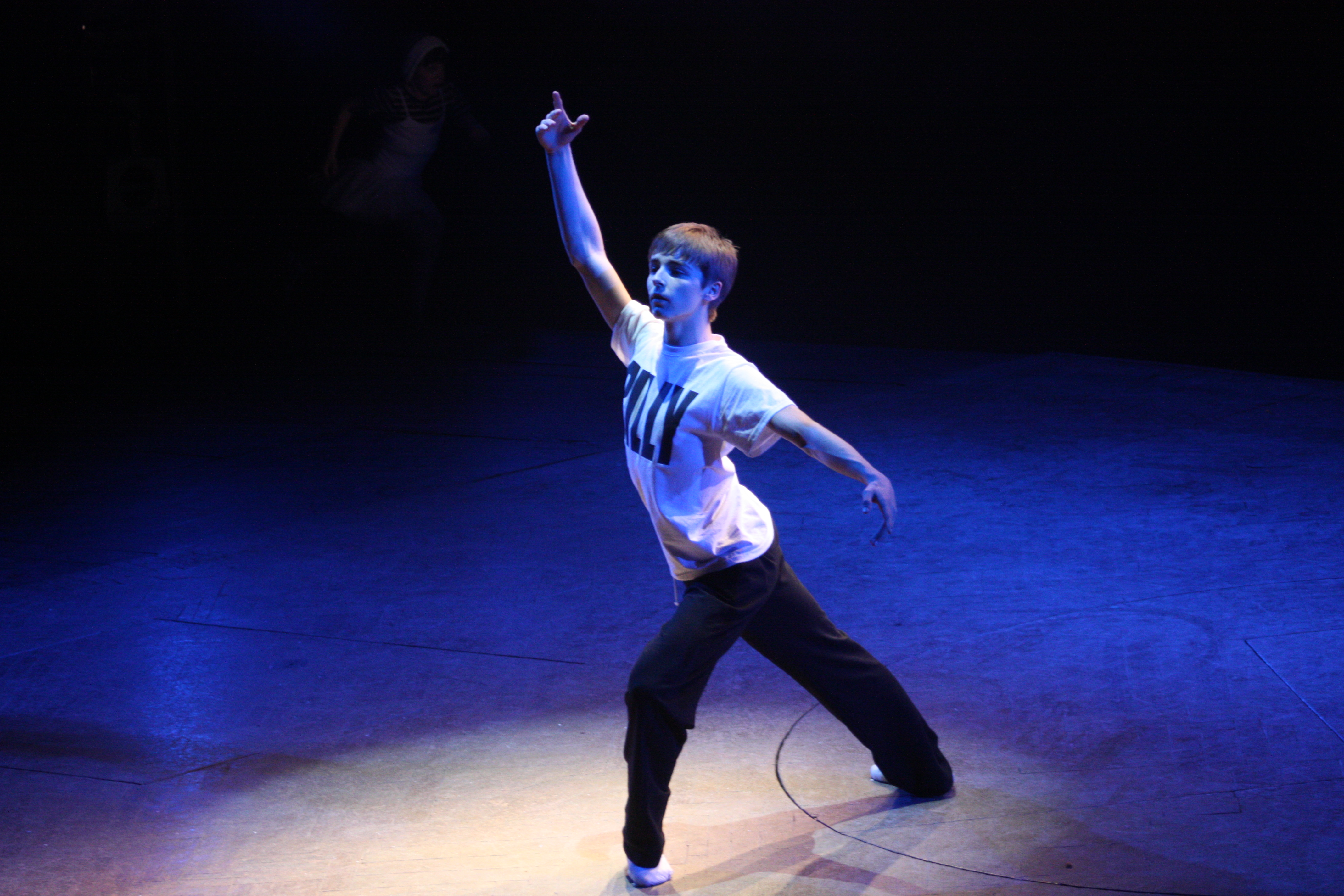 Musical theatre actor and dancer Liam Mower performing onstage in the 5th Birthday celebration of Billy Elliot the Musical at the Victoria Palace Theatre, London.